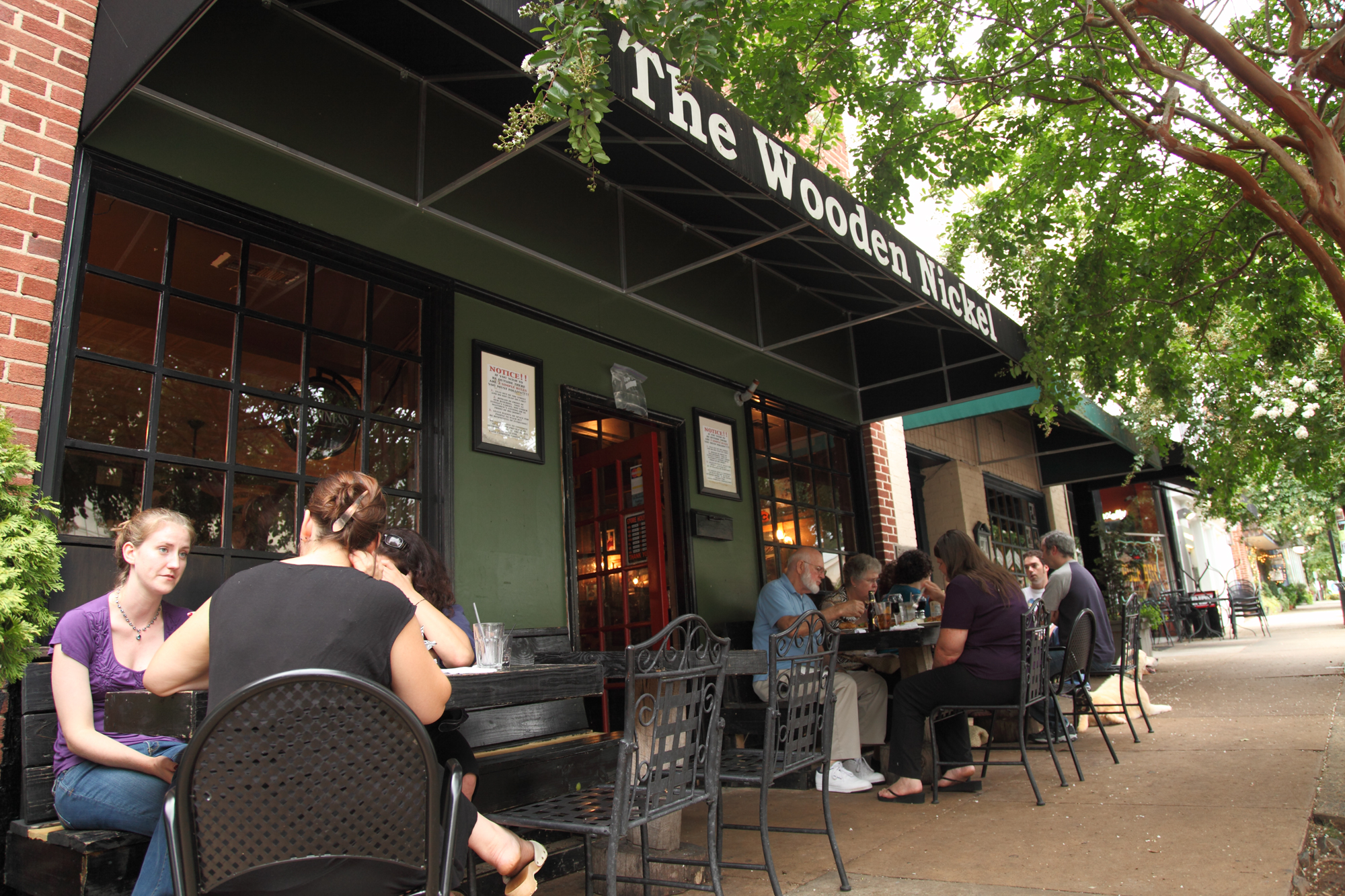 The Wooden Nickel, a pub at 105 North Churton Street in Hillsborough, North Carolina.